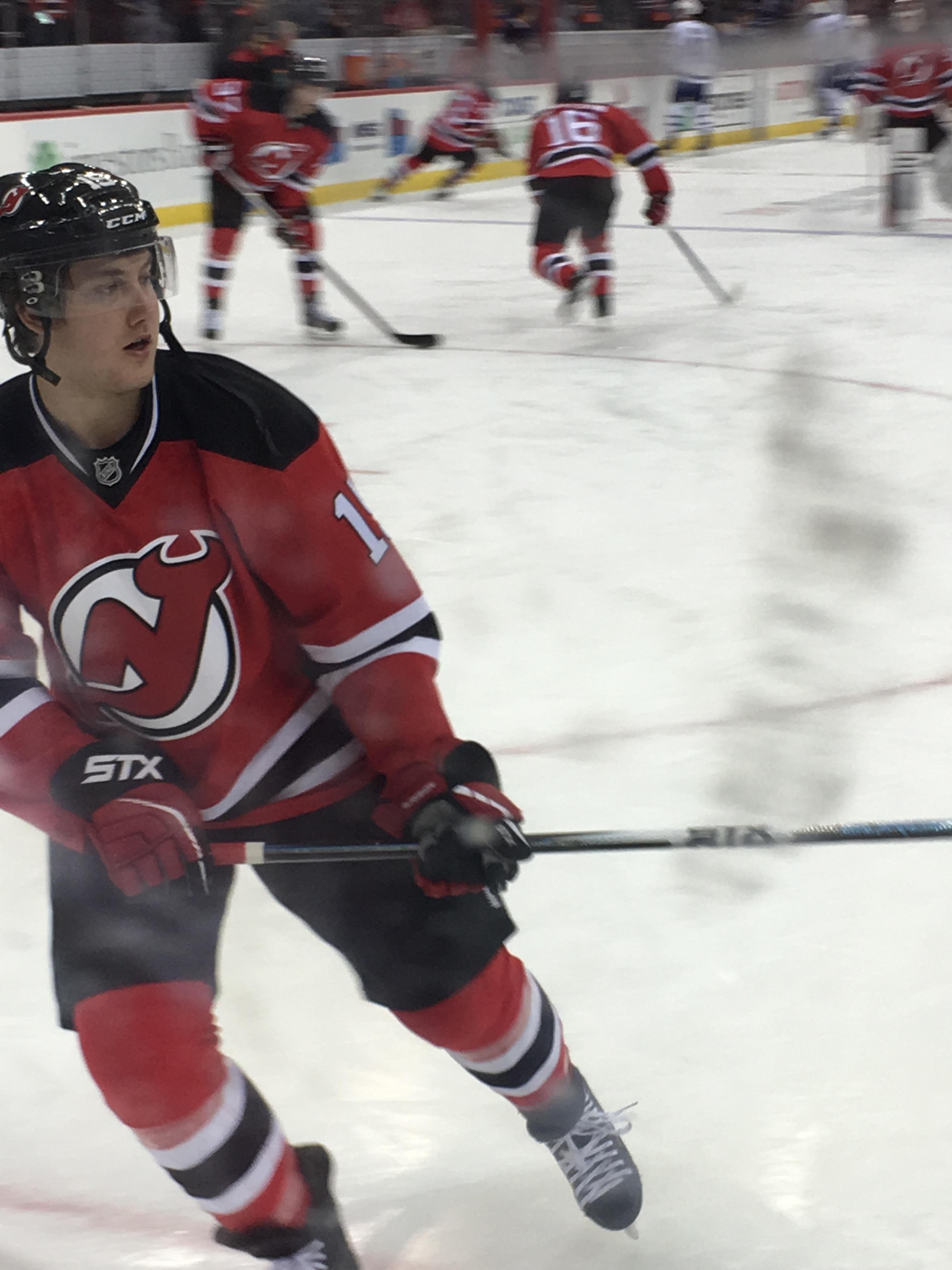 Reid Boucher with the New Jersey Devils in November 2016